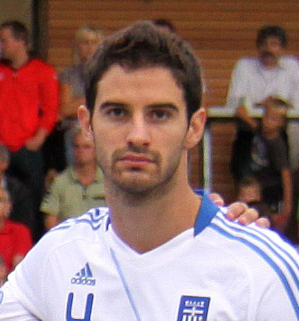 Greece U-21 before the friendly-match against Austria U-21 (2:3), 2011-09-05 in Gloggnitz – The photo shows (from left to right) 1st row: Nikos Kaltsas (Veroia FC), Alexis Apostolopoulos (Paok FC), Nikos Karelis (Ergotelis FC), Kostas Triantafyllou (Panserrakios FC), Christos Chrysofakis (Ergotelis FC); 2nd row: Goiuri Londigin (Skoda Xanthi FC), Apostolos Vellios (Everton FC), Dimitris Stamou (Paok FC), Nikos Mitropoulos (Olympiakos Volou FC), Tassos Avlonitis (Kavala FC), Tassos Laos (Panathinaikos FC).